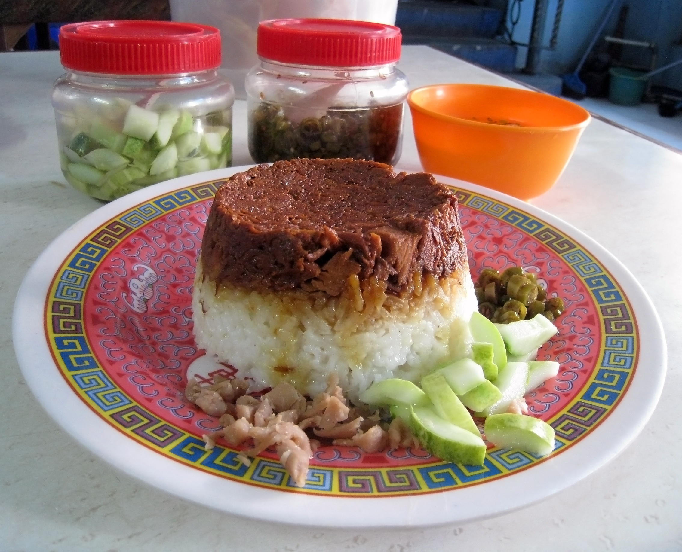 Nasi Tim Ayam (Steamed Chicken Rice) is a Chinese Indonesian dish, popular for breakfast. This hot food is also known as one of the comfort food for Chinese Indonesian. The chicken, mushroom and hard boiled egg were seasoned in garlic and soy sauce and put into tin bowl filled with rice and steamed until it cooked and ready to served. usually served with light chicken broth soup with chopped green onions, with additional cucumber and small green chili pickles.